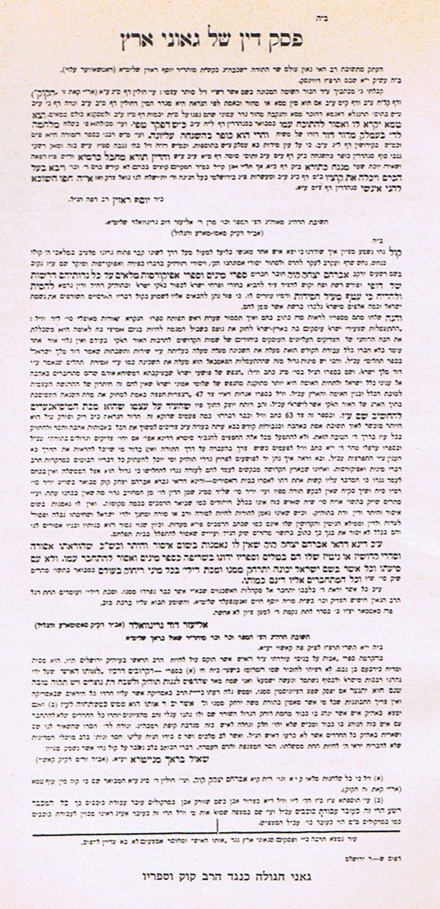 Proclamation against Rabbi A I Kook (1926)